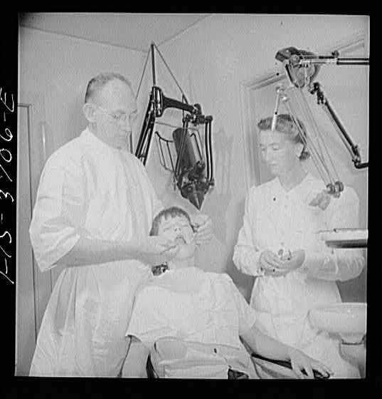 Greenbelt, Maryland. Dr. James McCarl with dental assistant and young patient.